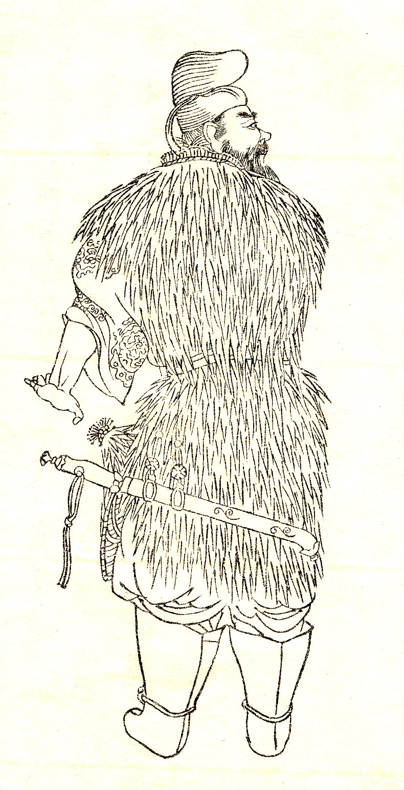 Mononobe no Moriya (物部守屋) was a high-ranking clan head position of the ancient Japanese Yamato state.This picture was drawn by Kikuchi Yosai（菊池容斎） who was a painter in Japan.